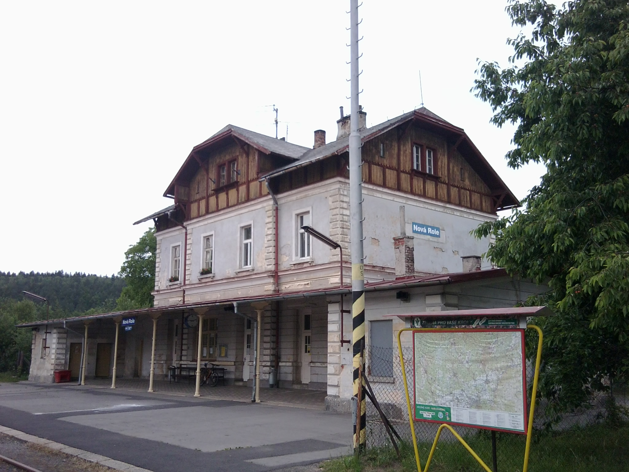 Train station of Art Nouveau style in Nová Role in 2012